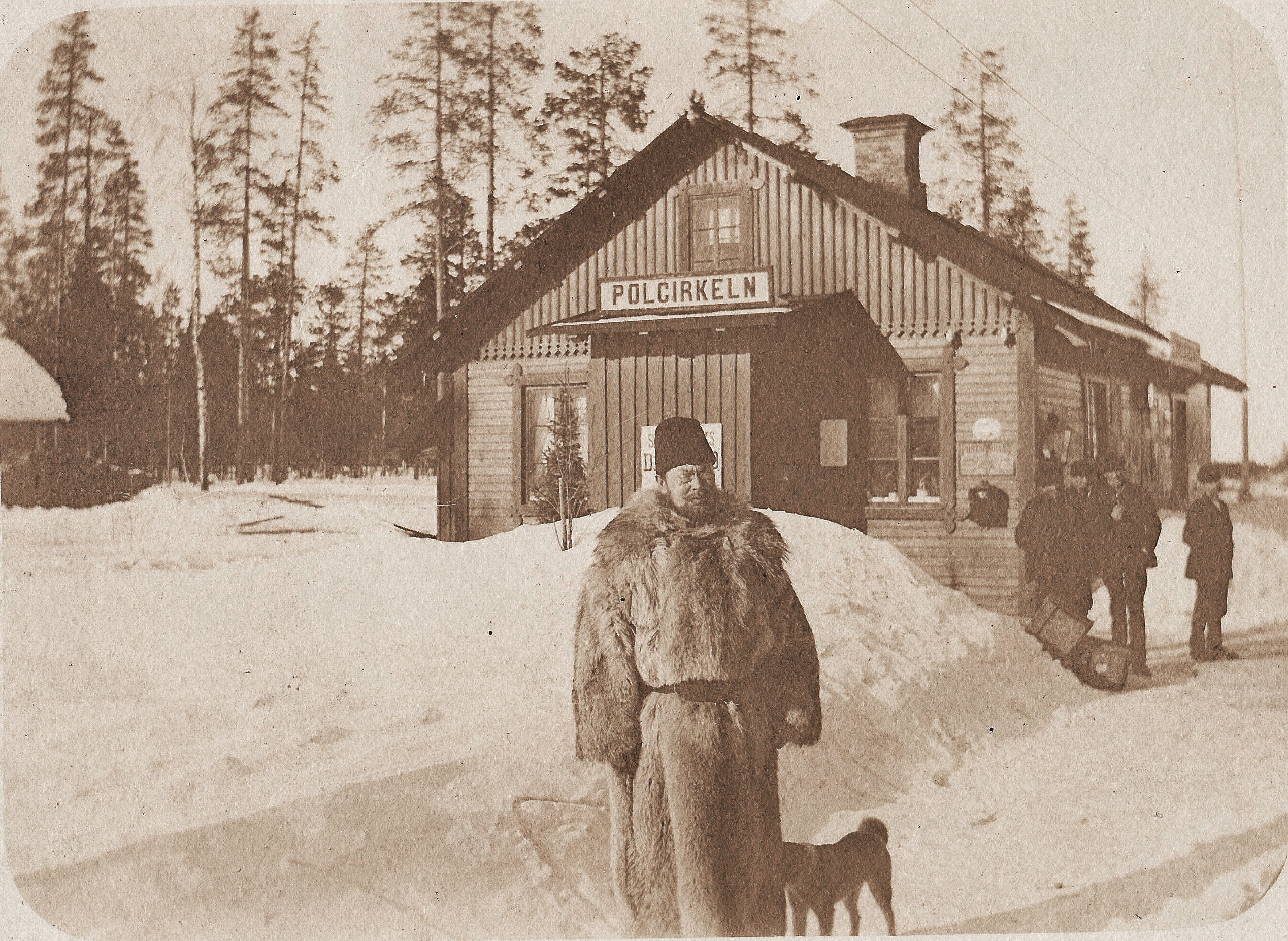 Josef Hammar at the polar circle, northern Sweden, February 1899.